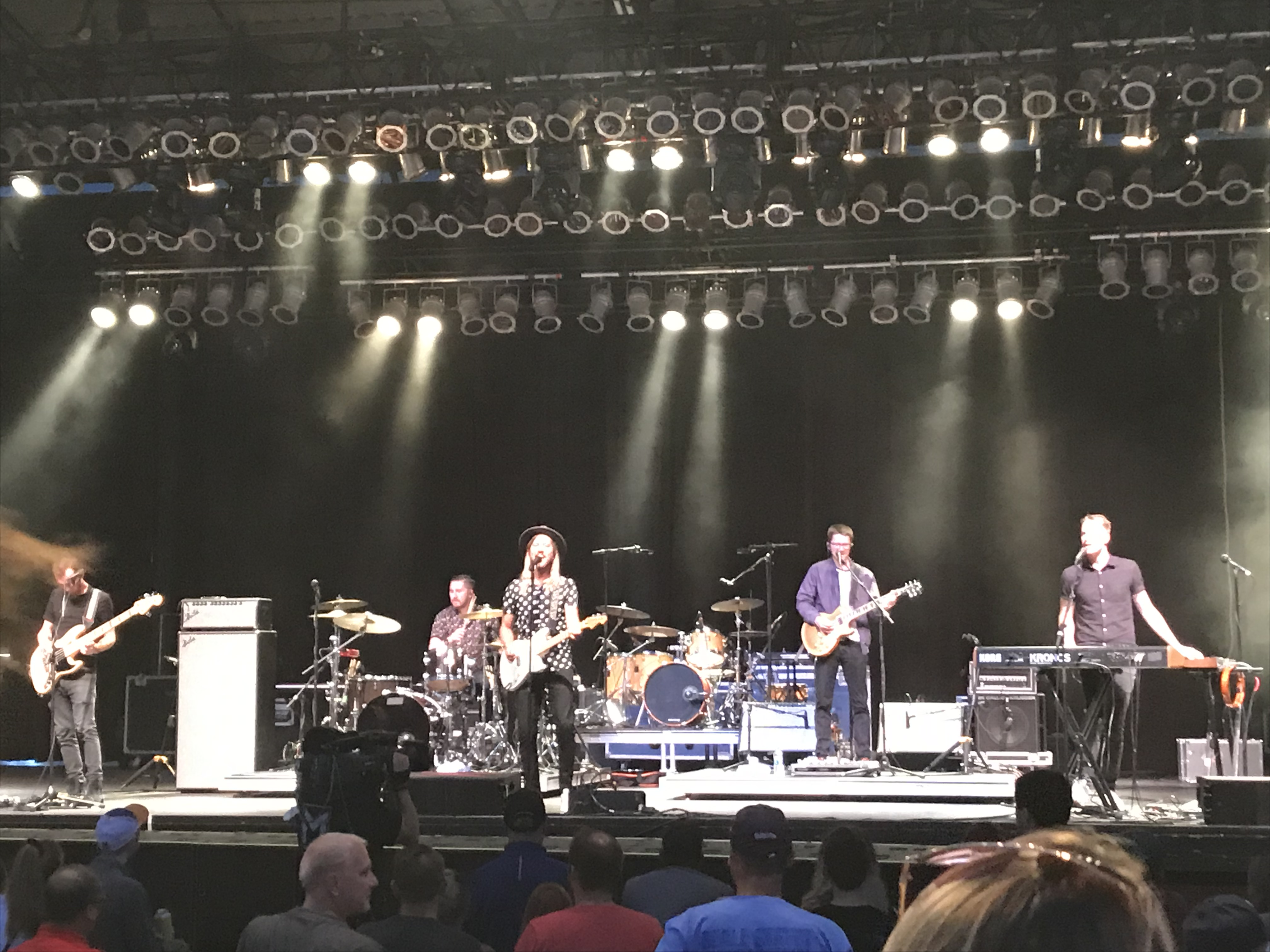 American alt-rock band Moon Taxi plays live at the Miller Lite Oasis stage on July 7, 2019.